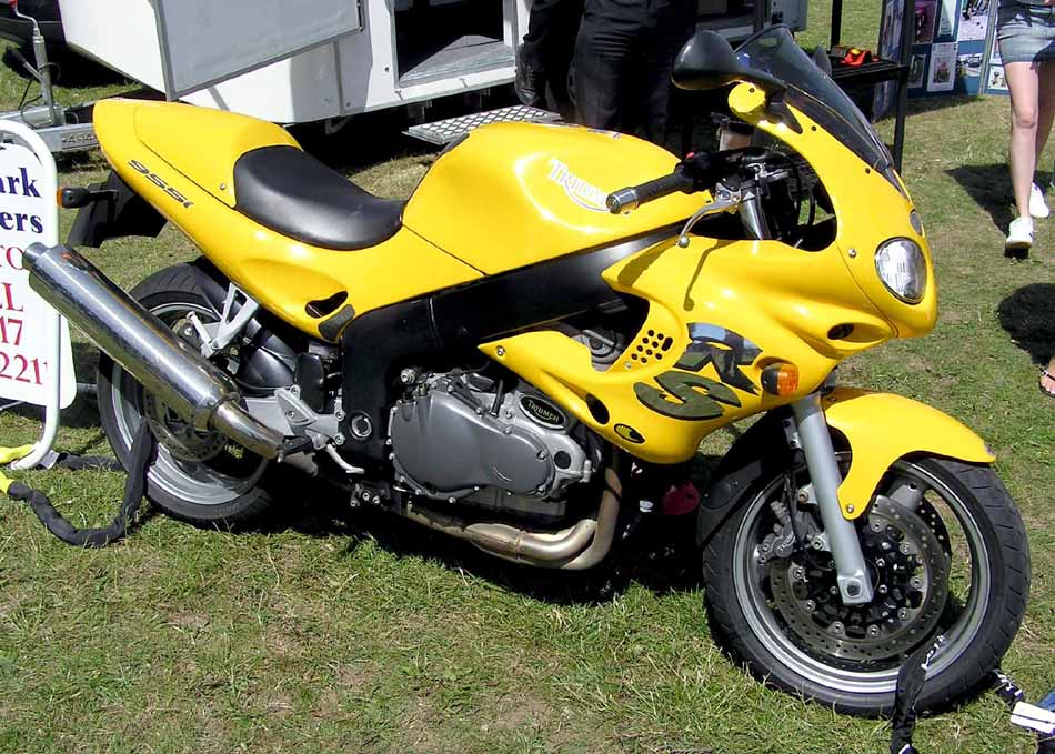 955cc Triumph Sprint RS motorcycle at a rally in Bristol, England.